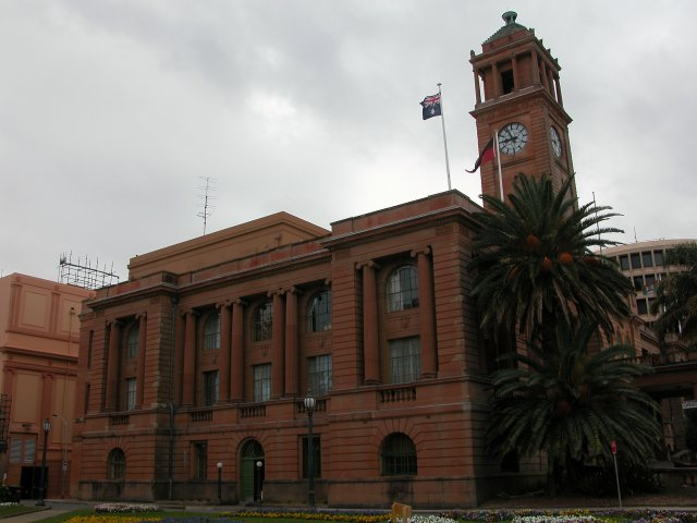 Newcastle City Hall (Australia)